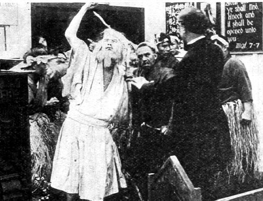 Photo of the village prophet at the Christian church from the 1914 film The Wrath of the Gods.